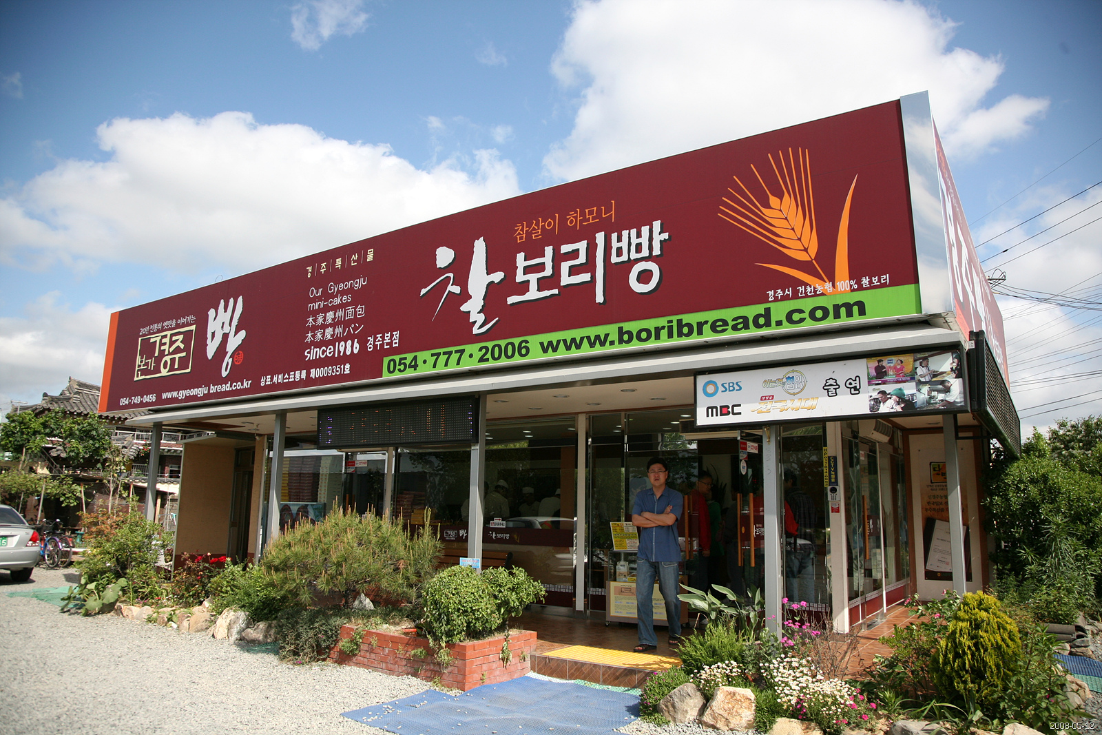 Bonga Gyeongju Bread Bakery in Gyeongju, North Gyeongsang province, South Korea